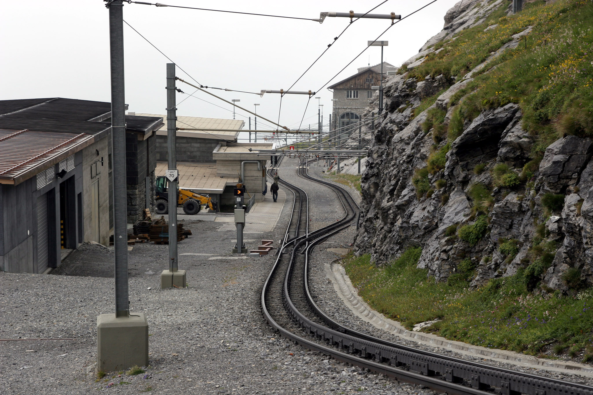 The station Eigergletscher from the Jungfraubahn in Switzerland.